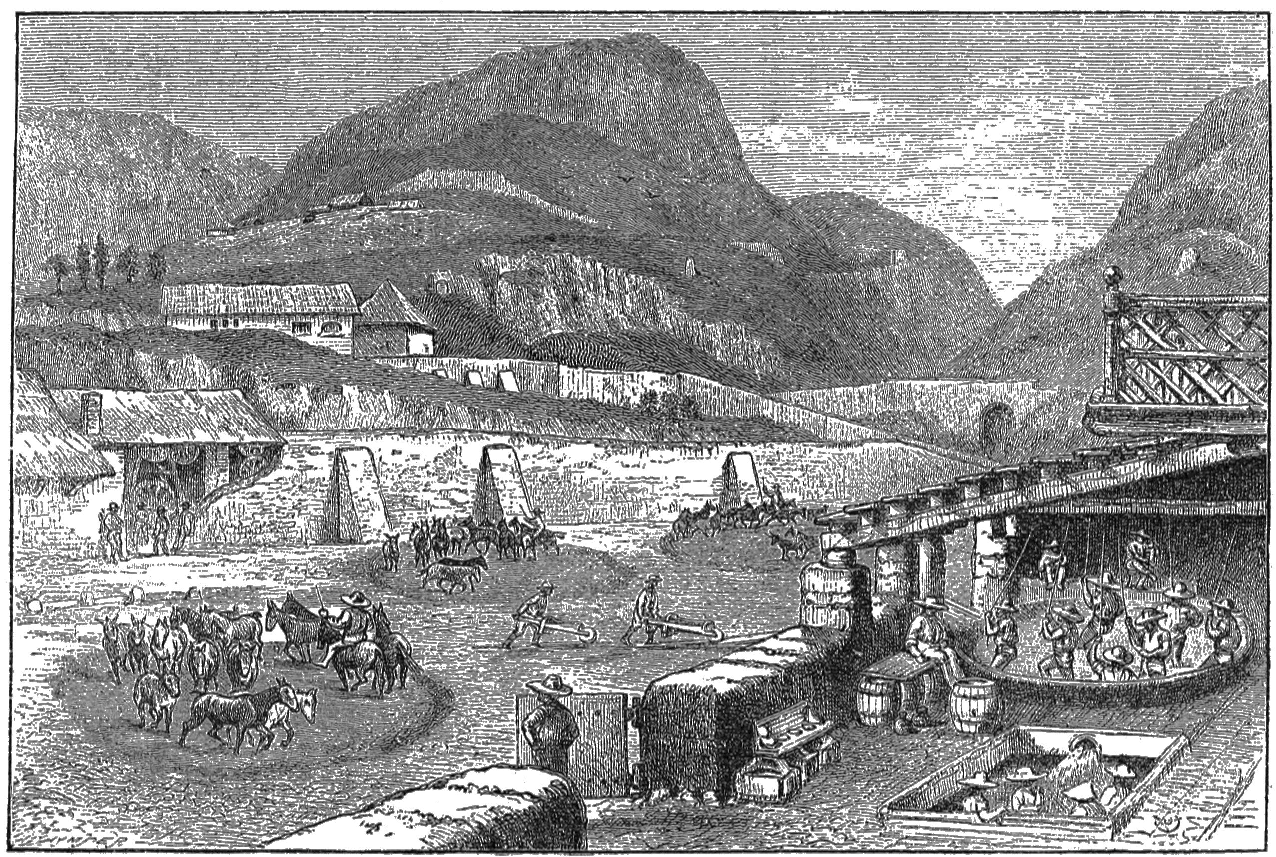 Silver Mill at Pachuca